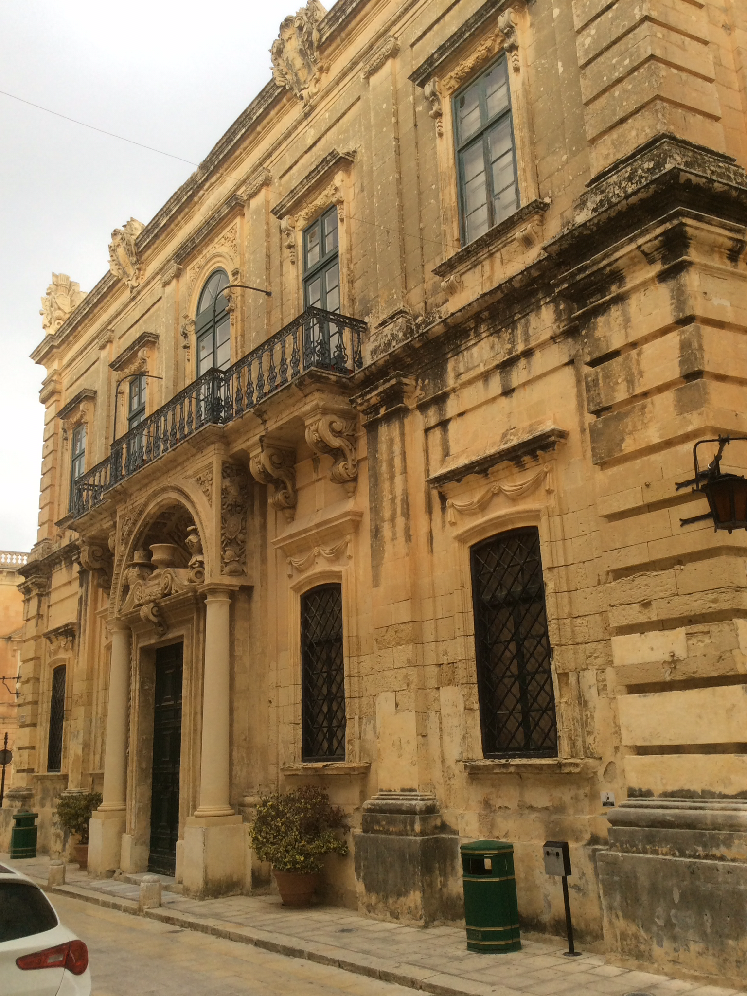 Banca Guiratale This media is about Maltese cultural property with inventory number 01188.